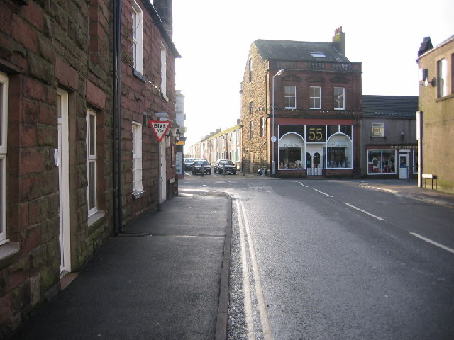 Cleator Moor Main road Junction. No the 55 shop is not a food shop but a flower shop.